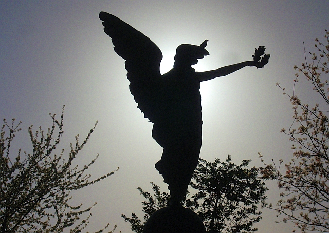 "Through Trial To Triumph", Finsbury War Memorial Silhouette of the angel on the war memorial. Providing a perch for the local birds enjoying the small parkland on Rosebery Avenue.